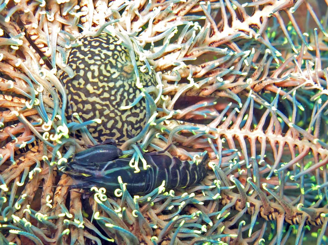 A little shrimp (Synalpheus demani) inside a crinoid.